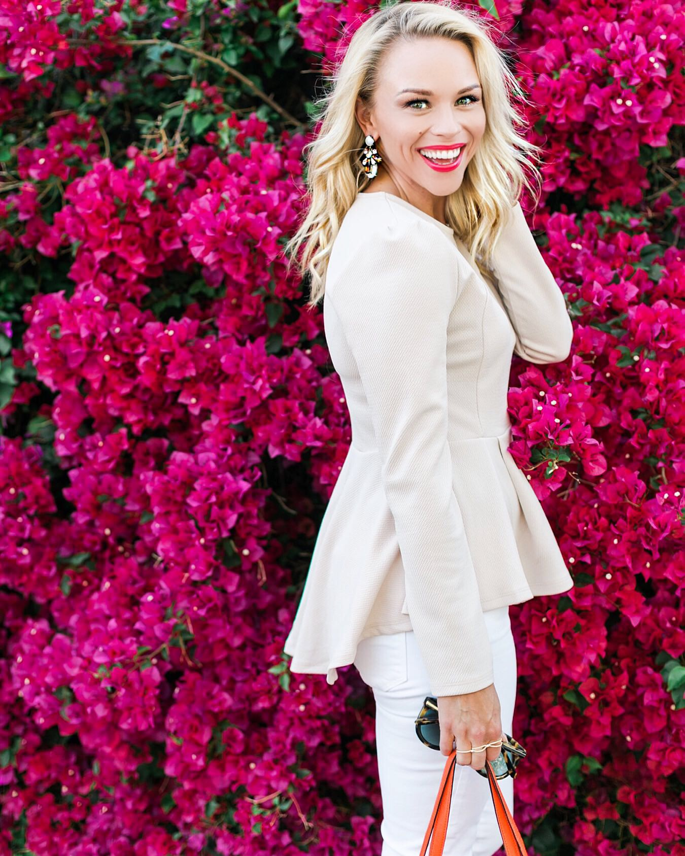 Julia Solomon